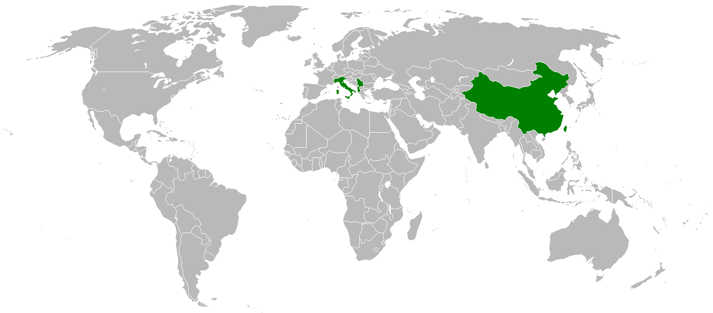 Conad in Europe